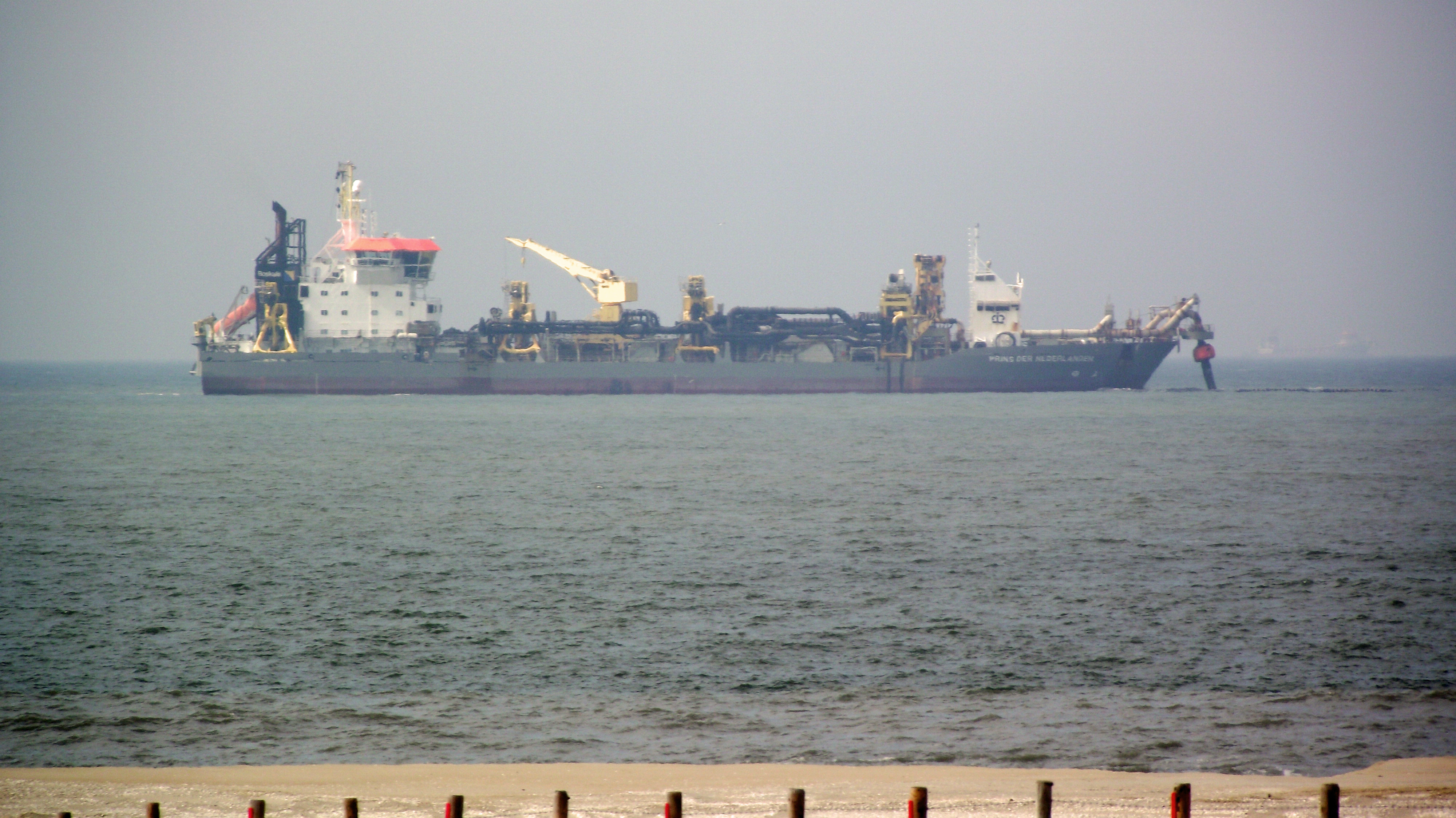 Suction hopper dredge ships "Prins der Nederlanden" at work of the coast of North Holland for the "Zandmotor" project.